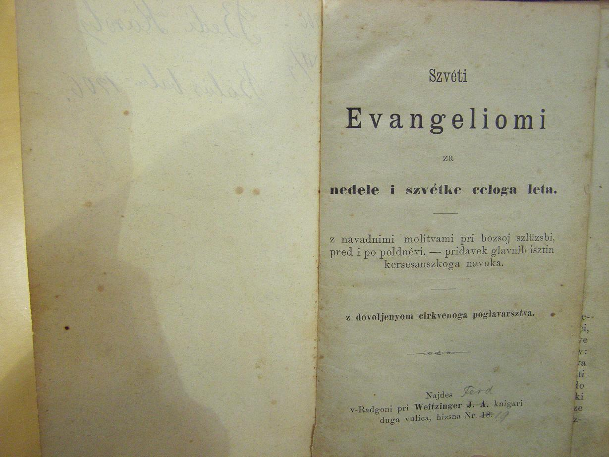 The Szvéti evangeliomi (Holy Gospel) of Miklós Küzmics (reprint, 1846). Sometime was the property of Károly Bedi in Újbalázsfalva.